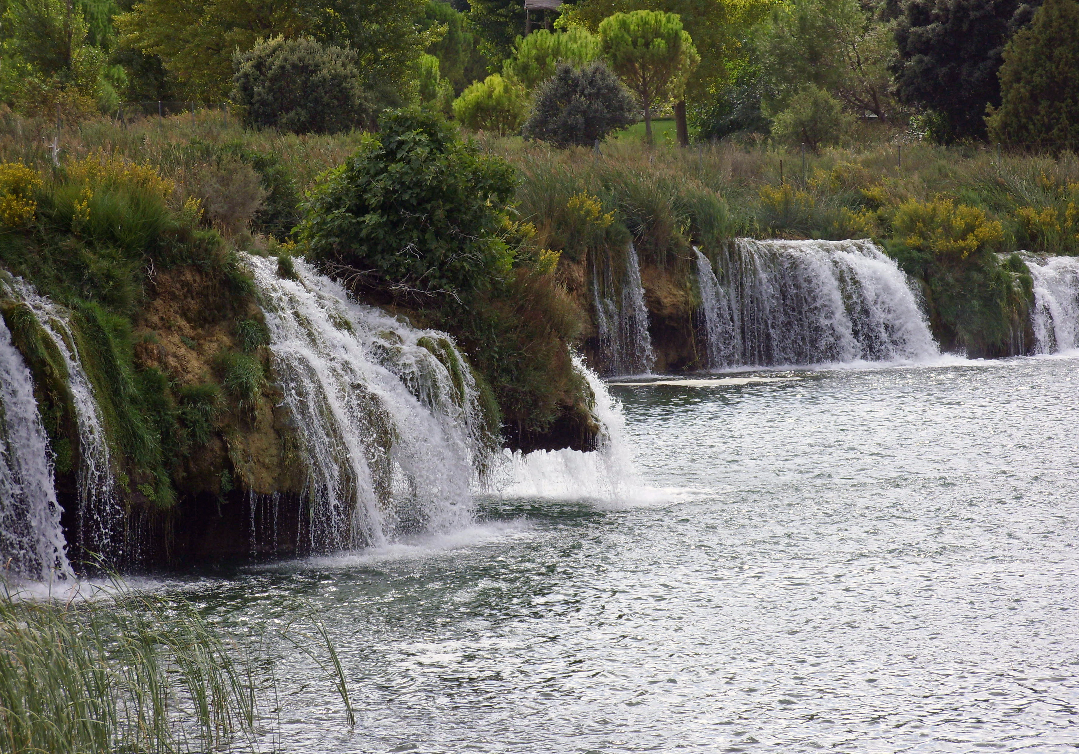 This is a photography of a Site of Community Importance in Spain with the ID: ES4210017. Natura2000 entry, EEA entry